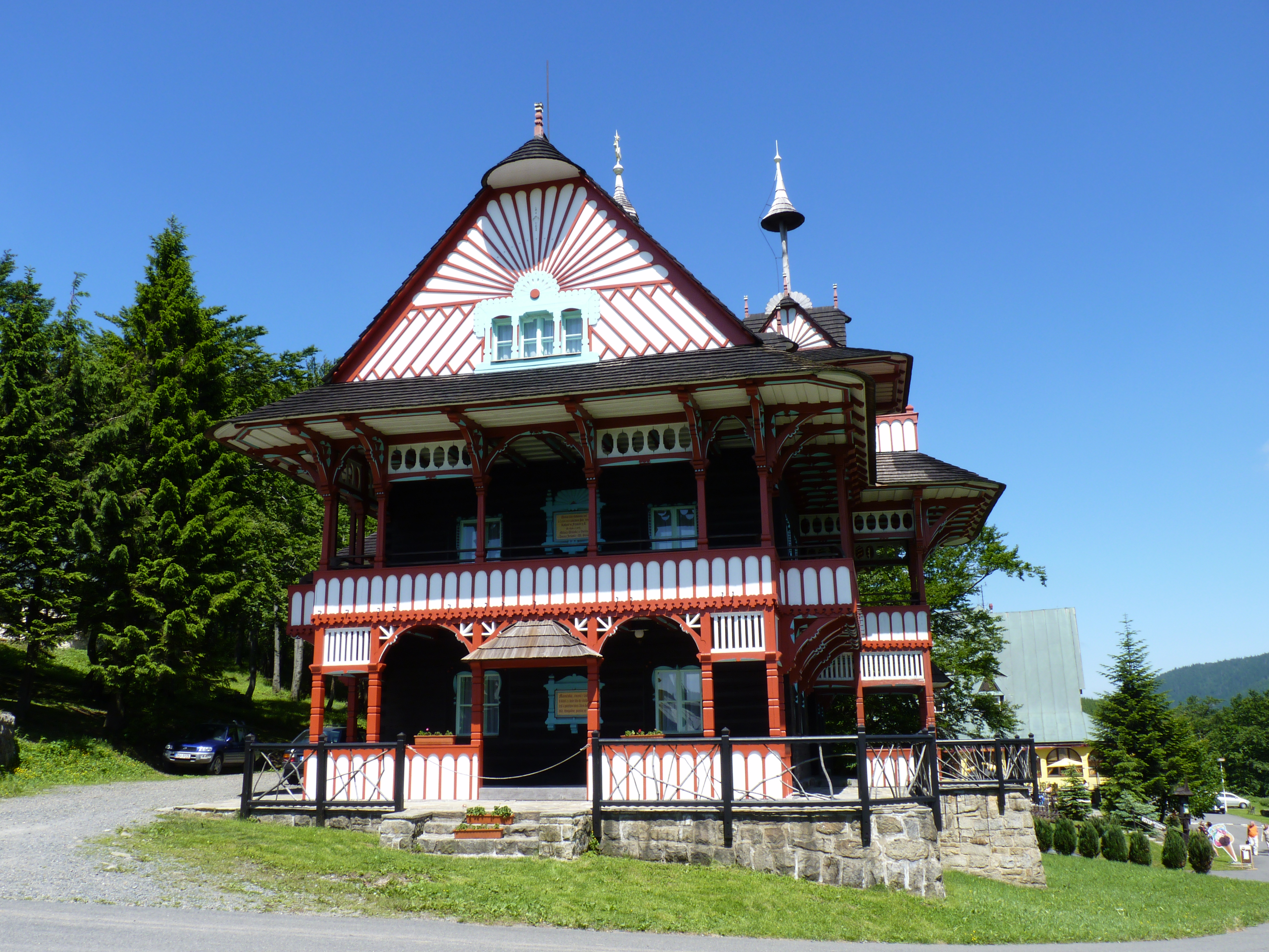 Pustevny in Moravian-Silesian Beskids